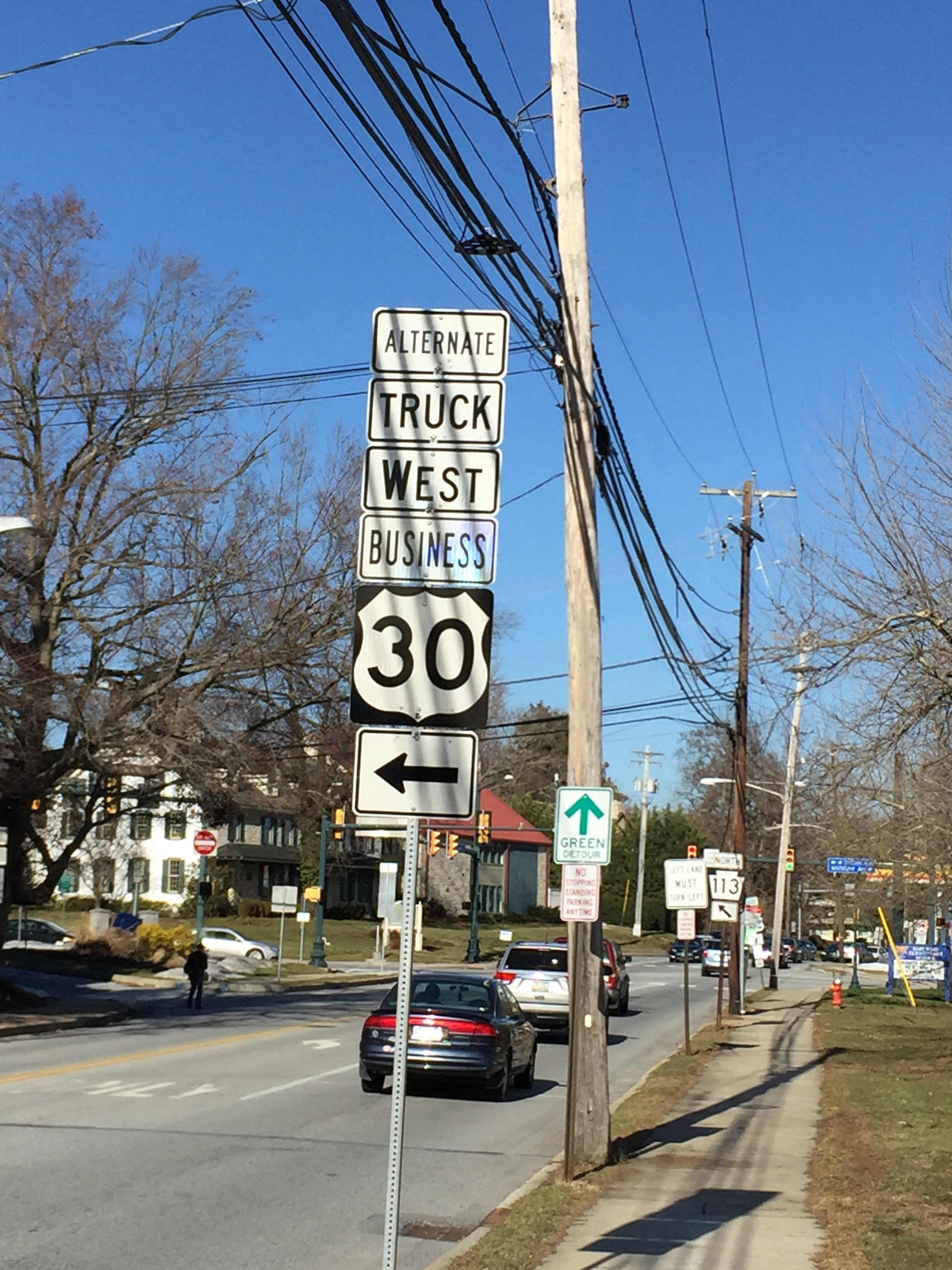 Us 30 alt truck business from my iPhone